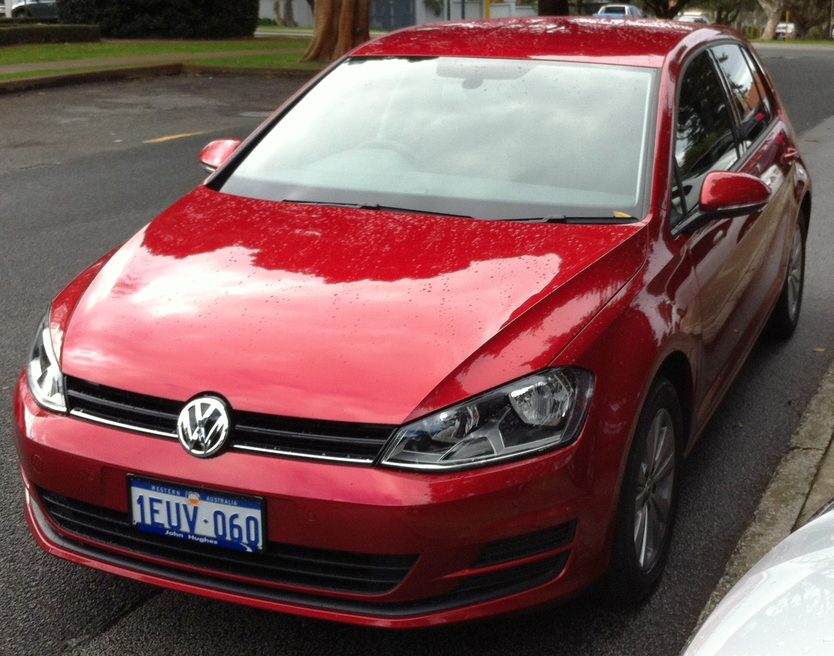 2015 Volkswagen Golf (5G MY15) 90TSI Comfortline. Photographed in Swanbourne, Western Australia